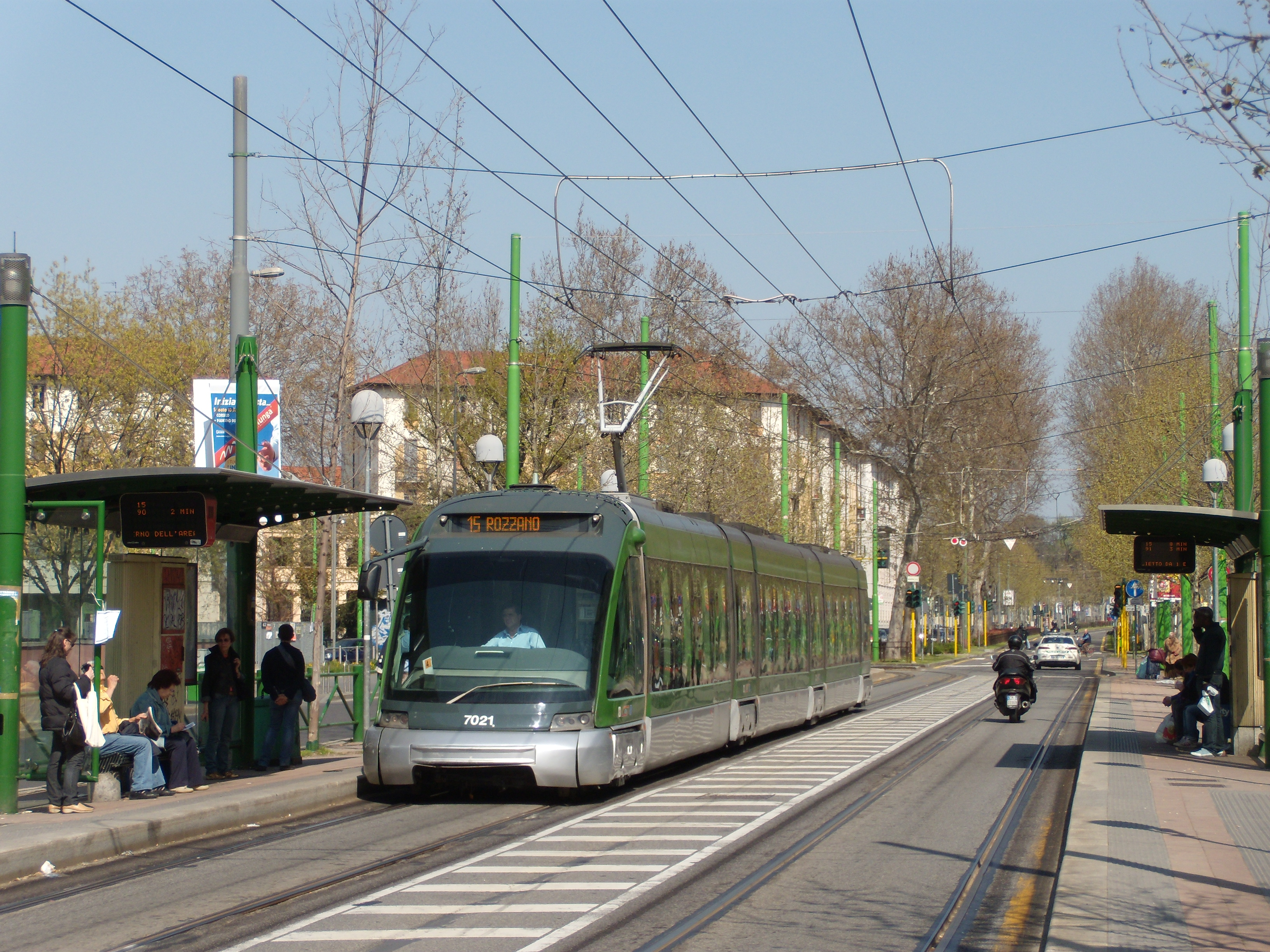 7021 in viale Tibaldi, a Milano